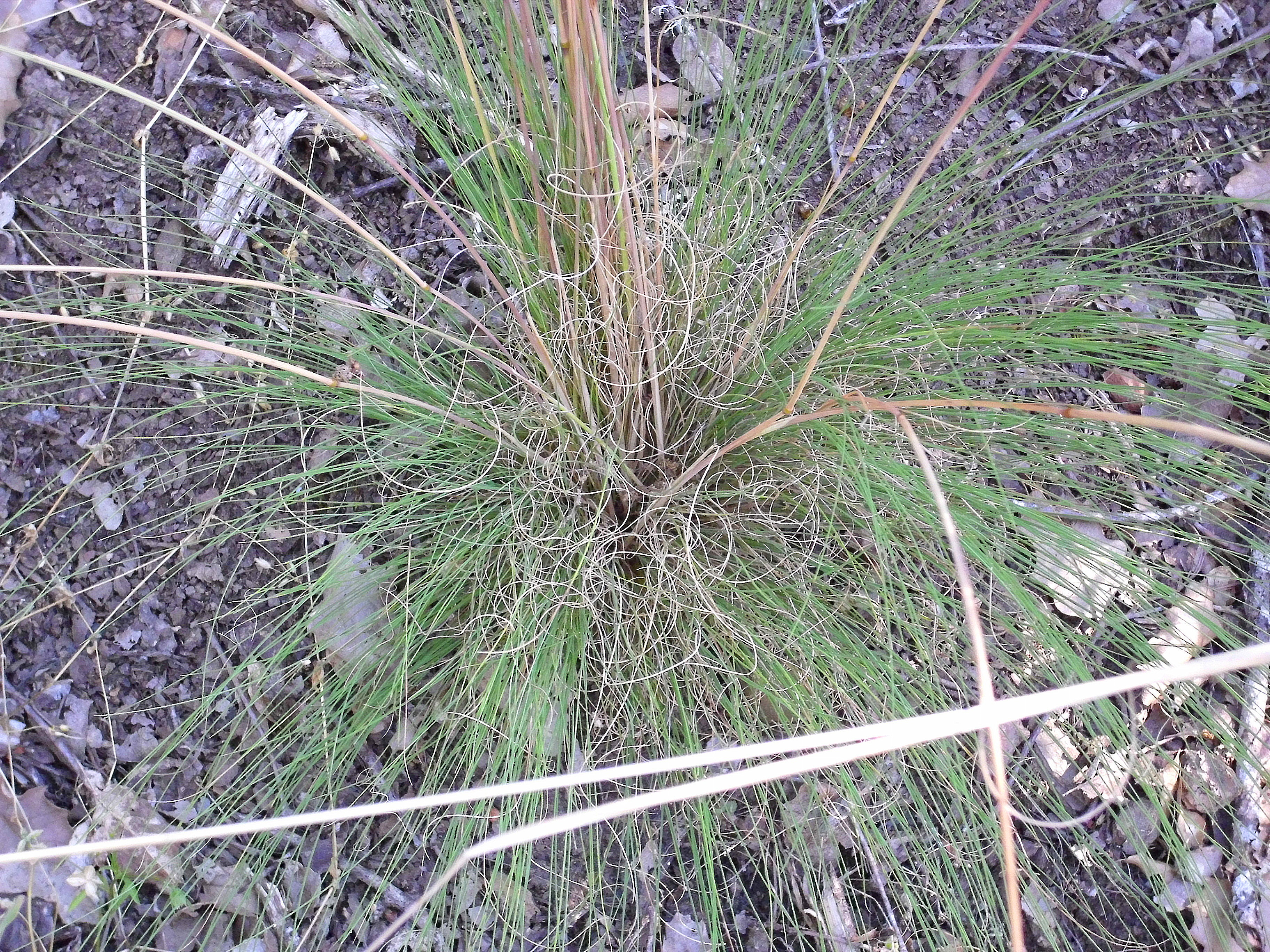 Festuca elegans habit, Valderrepisa Sierra Madrona, Spain